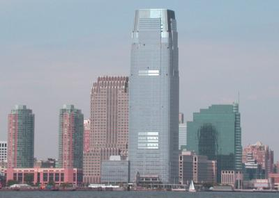 Jersey City, New Jersey skyline